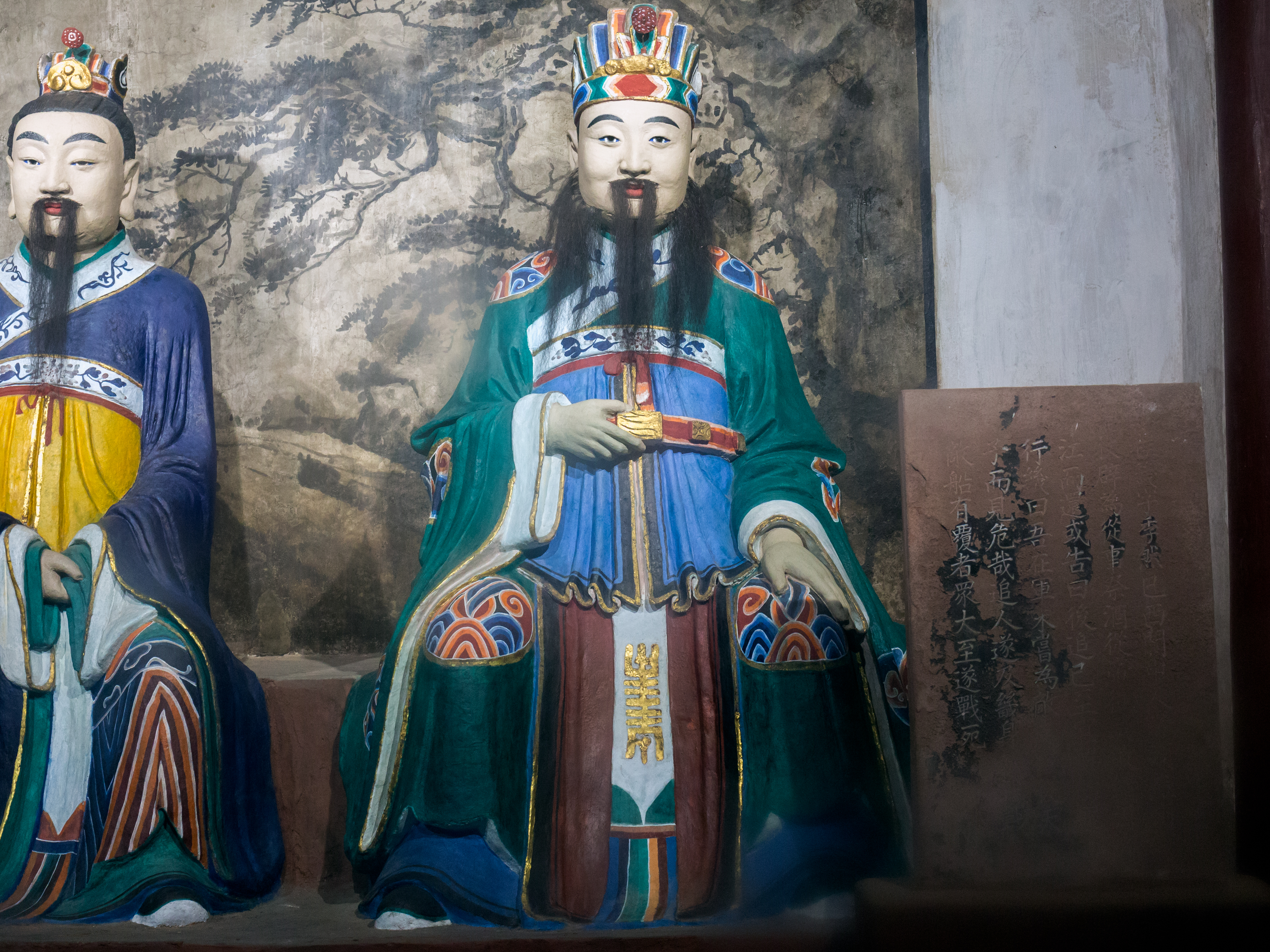 Cheng Ji (程畿)